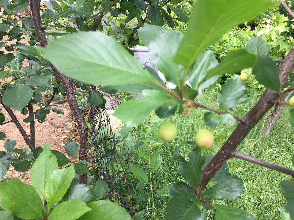 Sour cherry in Macedonia